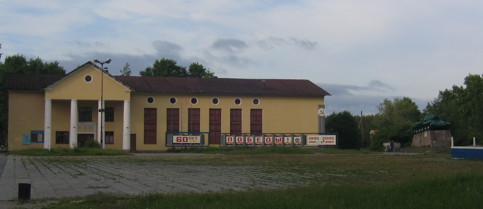 Building in Medvezhyegorsk town, Republic of Karelia, Russia